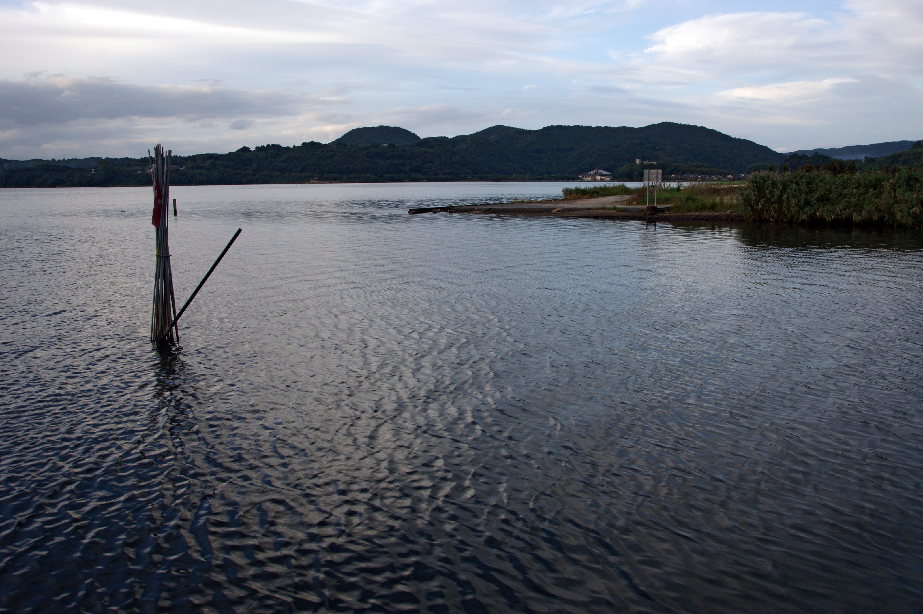 Lake Togo, Yurihama, Tottori prefecture, Japan